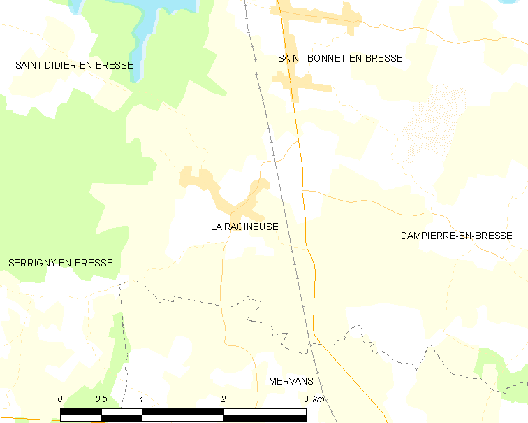 Map of French municipality